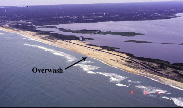 Summary Damage to Highway 12 in North Carolina